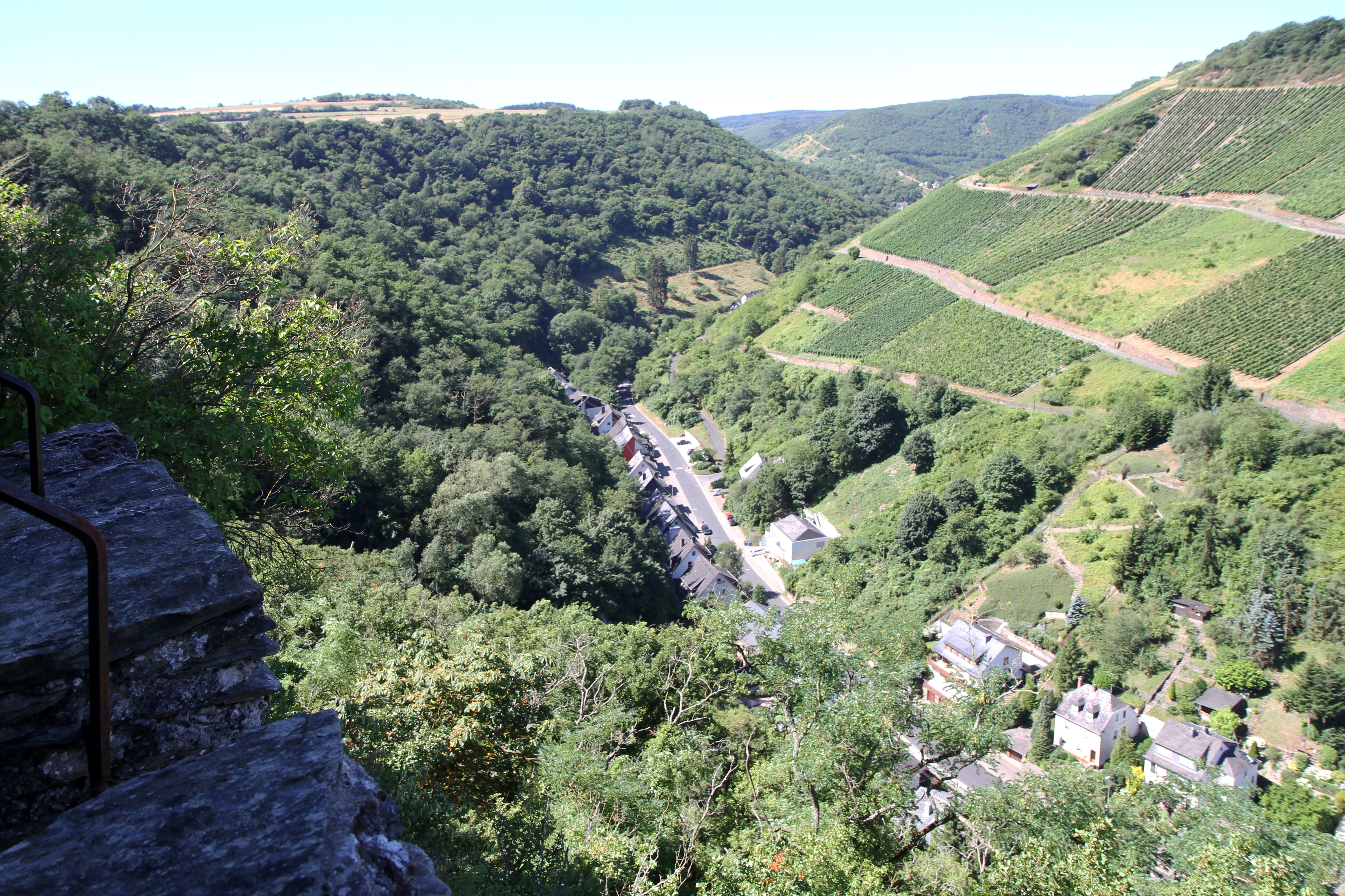 landscape Oberwesel, Rhine Valley/Germany.